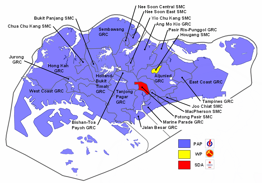 Created by Vsion References: Elections Department Singapore, URL accessed 3 March 2006. This map is for illustration only, please consult Elections Department Singapore for official information. The Singapore map and division boundaries may contain errors. Please report any error to user:Vsion in .